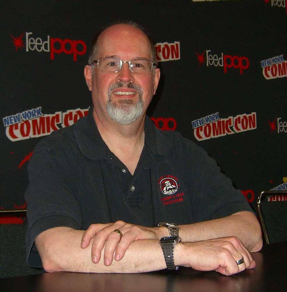 Novelist Timothy Zahn on Day 2 of the 2012 New York Comic Con, Friday October 12, 2012 at the Jacob K. Javits Convention Center in Manhattan. This photo was created by Luigi Novi. It is not in the public domain, and use of this file outside of the licensing terms is a copyright violation.